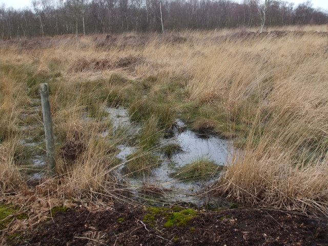 Peat Bog on Thorne Moor